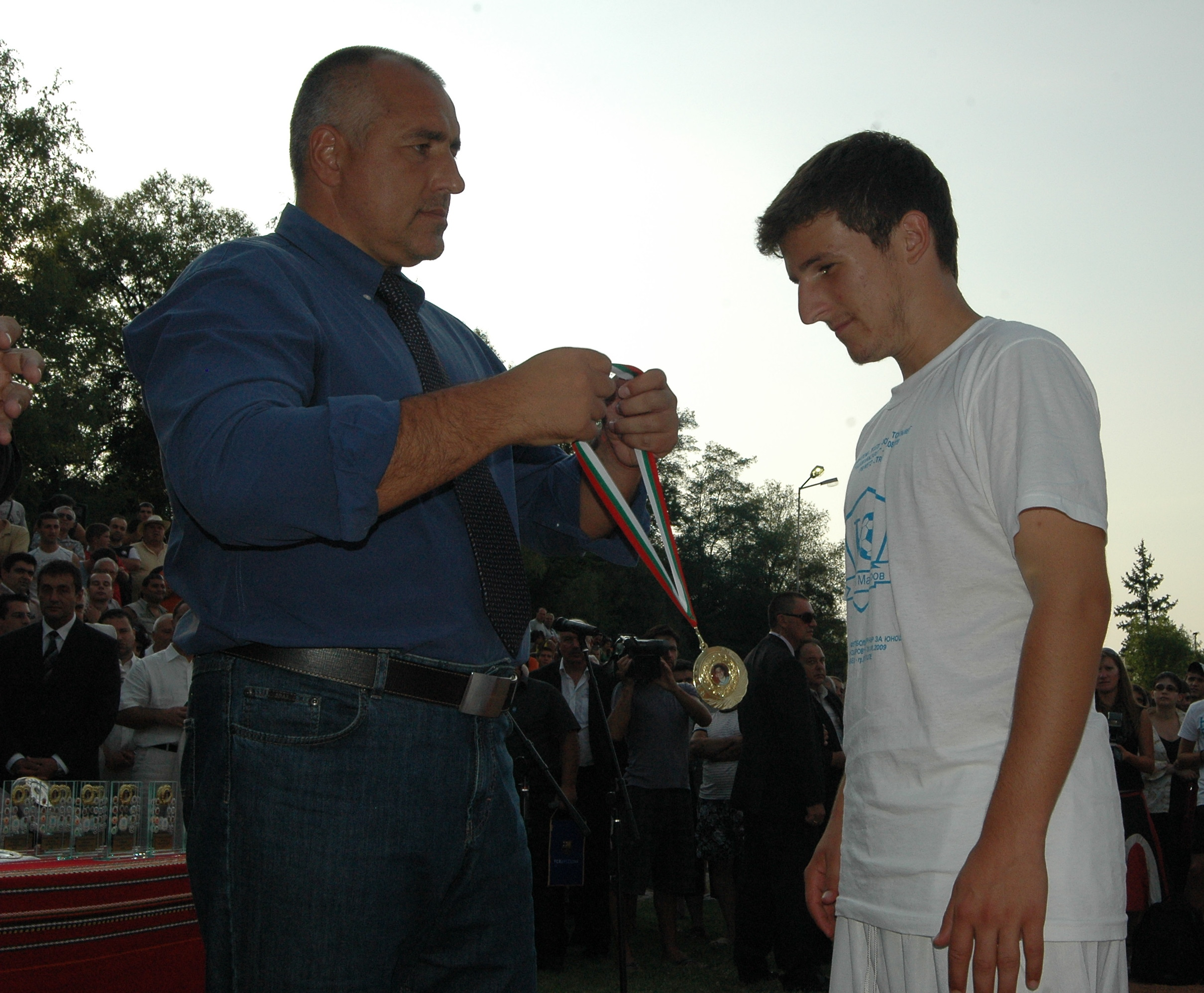 Denislav Hristov